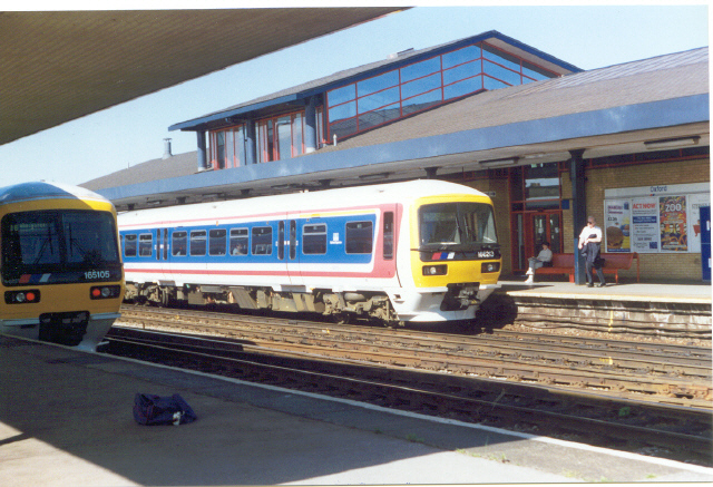 Oxford. Train from London, on which I travelled, at the left with a train for London at the other platform.